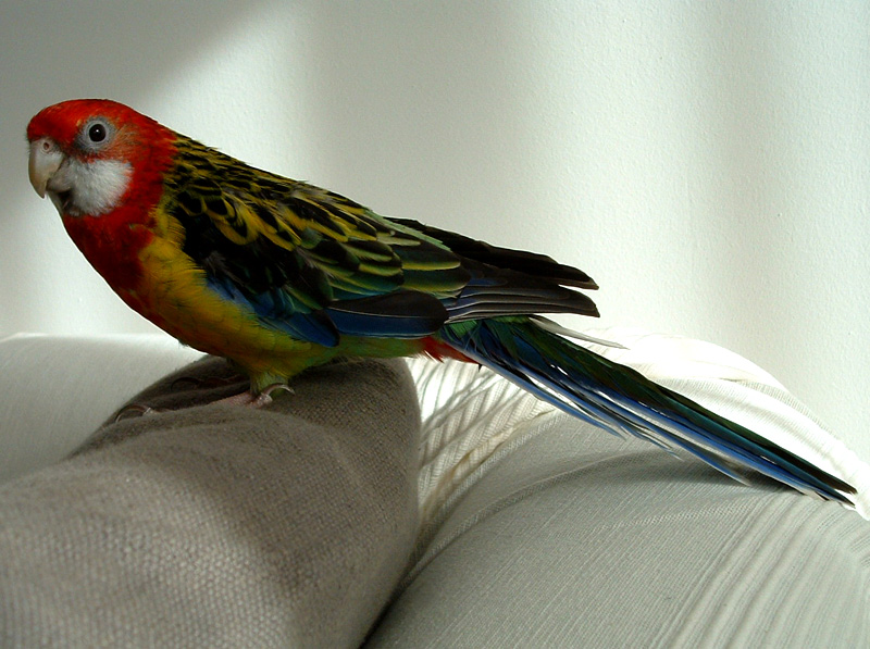 My name is Ziuta, just Ziuta; Eastern Rosella (Platycercus eximius).